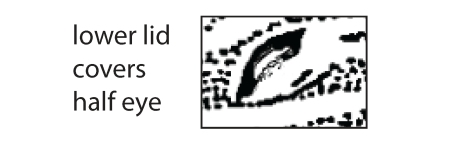 Standard Event System character depiction